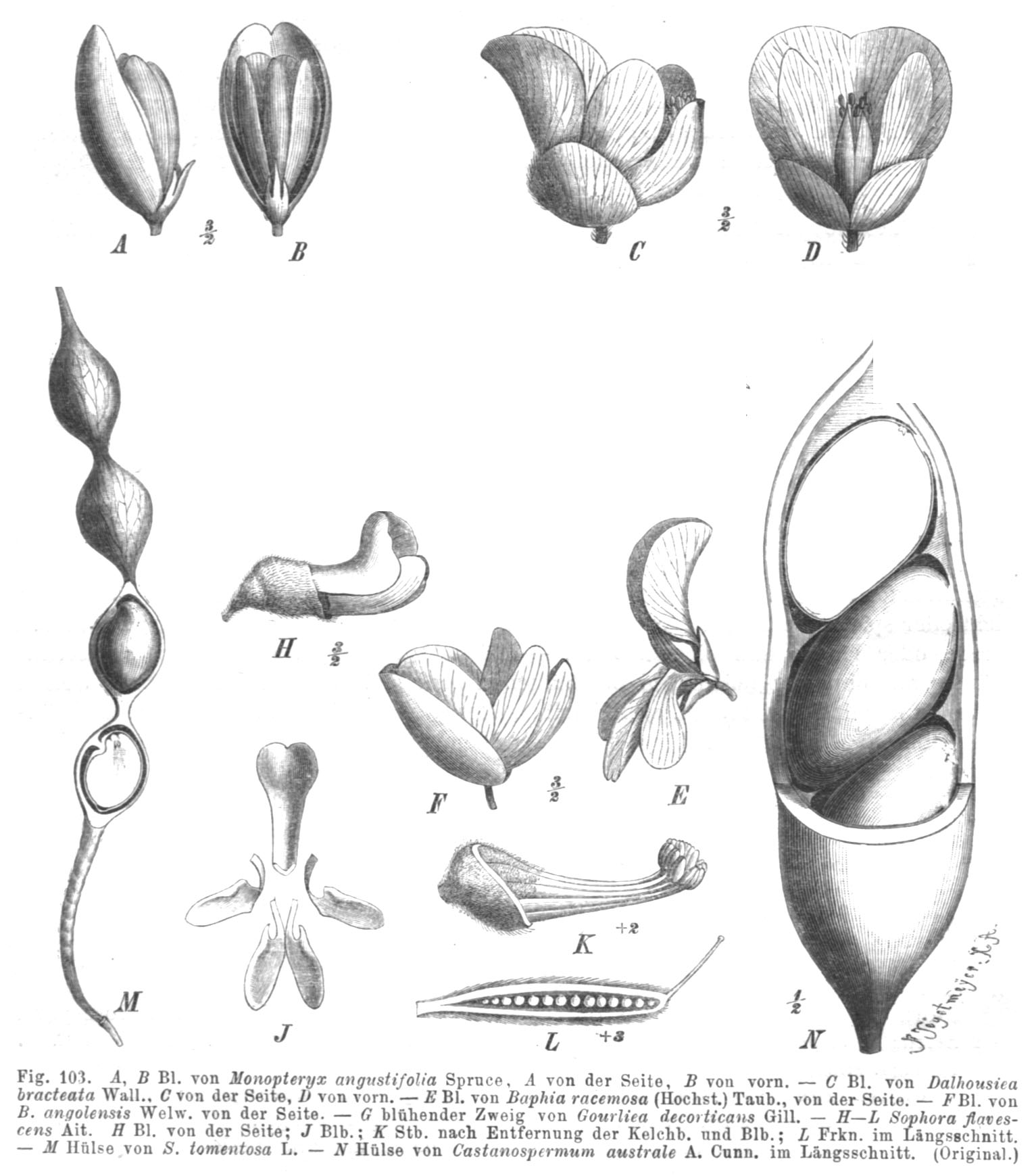 Illustration from book